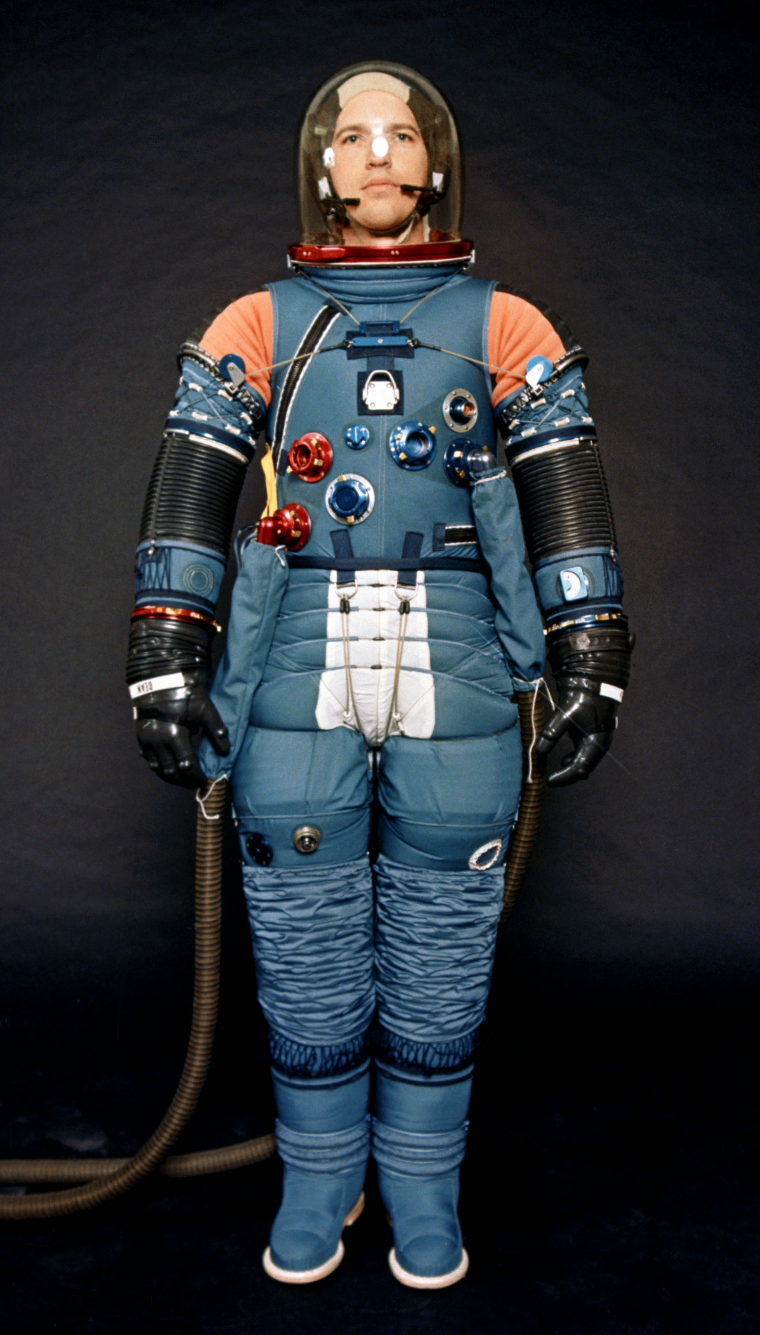 "The A7LB suit from ILC is shown without the [integrated thermal micrometeorite garment]. Note the improved convoluted joints at the knees, wrists, elbows, ankles and thighs" - Suiting Up For Space. Image ID: S71-24533